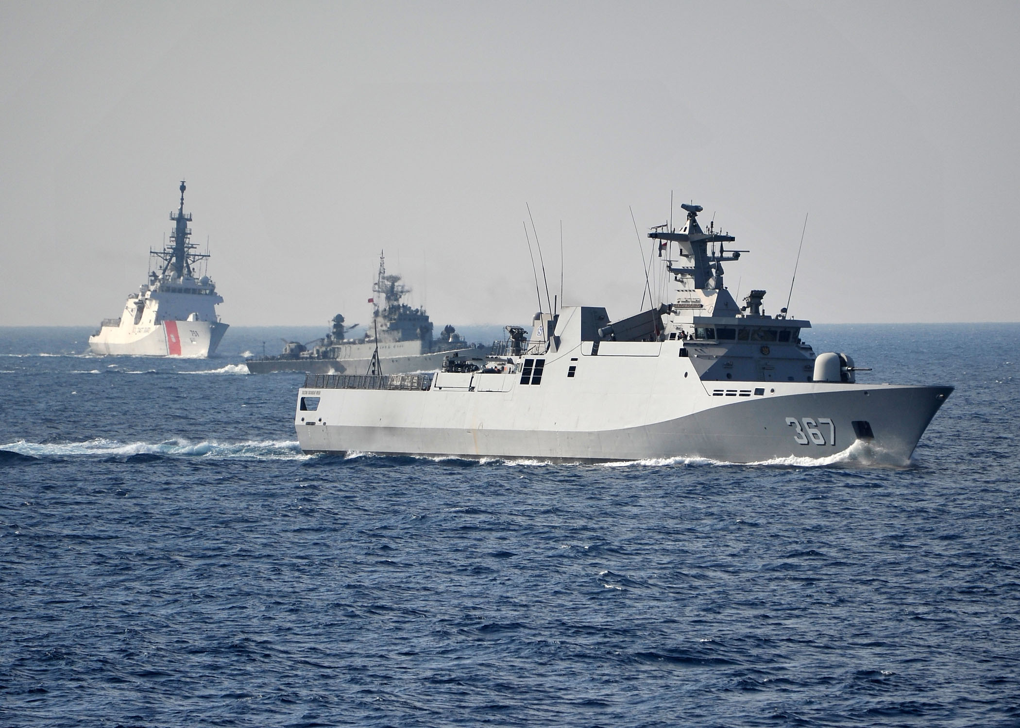 JAVA SEA (June 5, 2012) The Indonesian navy Sigma-class corvette KRI Sultan Iskandar Muda (SIM 367), the Indonesian navy Parchim I-class corvette KRI Silas Papare (PK-386) and the U.S. Coast Guard Legend-class national security cutter USCGC Waesch (WMSL 751) transit the Java Sea while conducting gunnery exercises during the at-sea phase of Cooperation Afloat Readiness and Training (CARAT) 2012 Indonesia. CARAT 2012 is a nine-country, bilateral exercise between the United States and Bangladesh, Brunei, Cambodia, Indonesia, Malaysia, Singapore, the Philippines, Thailand, and Timor Leste and is designed to enhance maritime security skills and operational cohesiveness among participating forces. (U.S. Navy photo by Mass Communication Specialist 3rd Class Gregory A. Harden II/Released) 120605-N-HI414-403 Join the conversation navylive.dodlive.mil